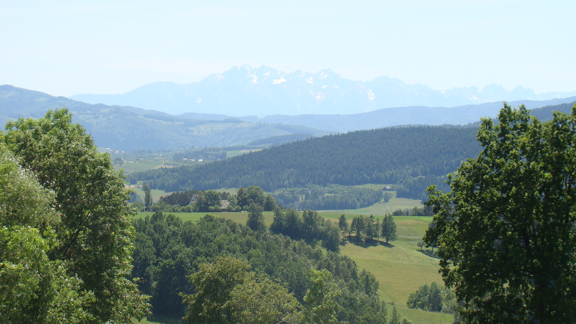 Panorama of Tatras (view from National Road Nr 28, at Kanina)